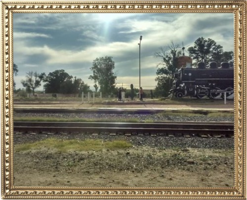 ESTACION BENJAMIN HILL MAQUINA